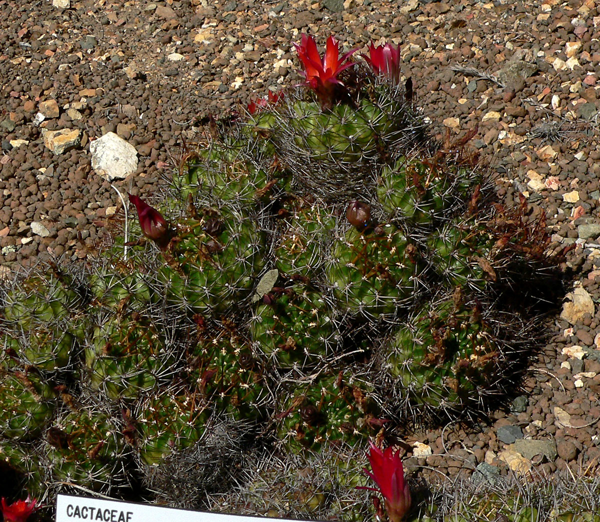 Echinopsis hertrichiana at the University of California Botanical Garden, Berkeley, California